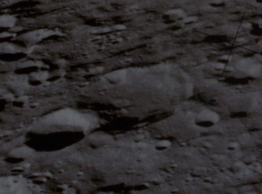 Oblique view of Nagaoka, on the far side of the moon. North at left.